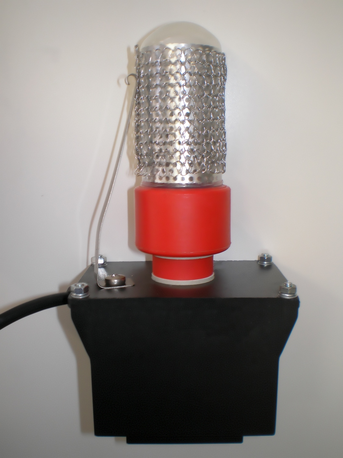 Ionization module with IR-B-100 Ionization tube with 2850V at 230V/50Hz AC voltage for air flows up to 200m ³ / h The ionization modules are available for different input voltages of 12V & 24V DC, up to 120V & 230V AC and can be equipped with different sizes of ionization tubes.